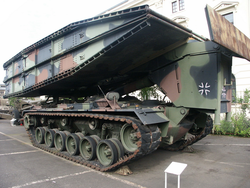 Bridgelayer AVLB M48 at the Militärhistorischen Museum in Dresden